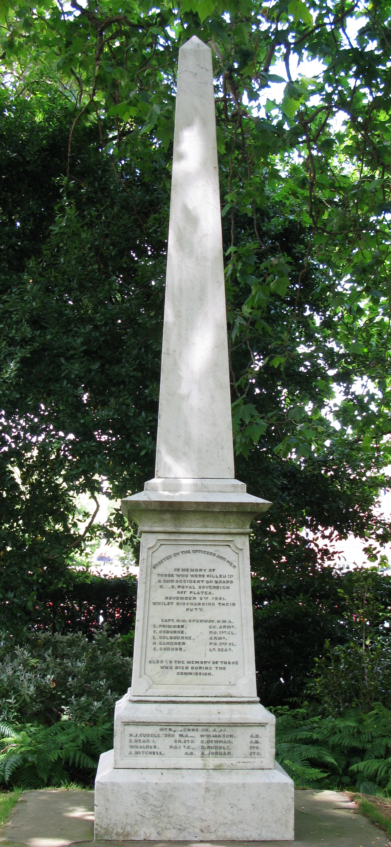 Monument in Victoria Park, Portsmouth, UK, to those killed on board HMS Royal Sovereign (1891) in 1901 when a 6-inch gun exploded.